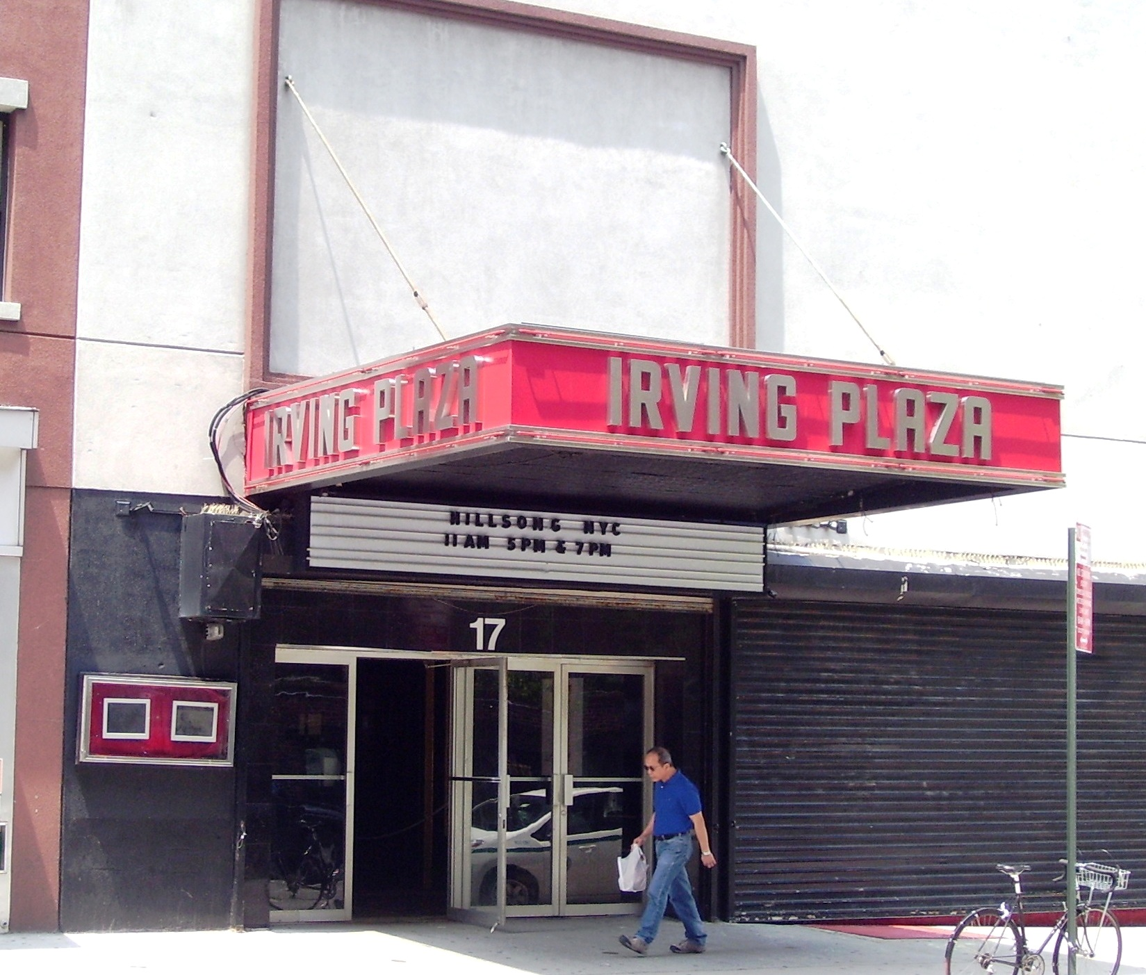 The entrance to the Irving Plaza concert hall at 17 Irving Place at the corner of East 15th Street in the Union Square neighborhood of Manhattan, New York City. The building was built in 1888 and has a varied history.